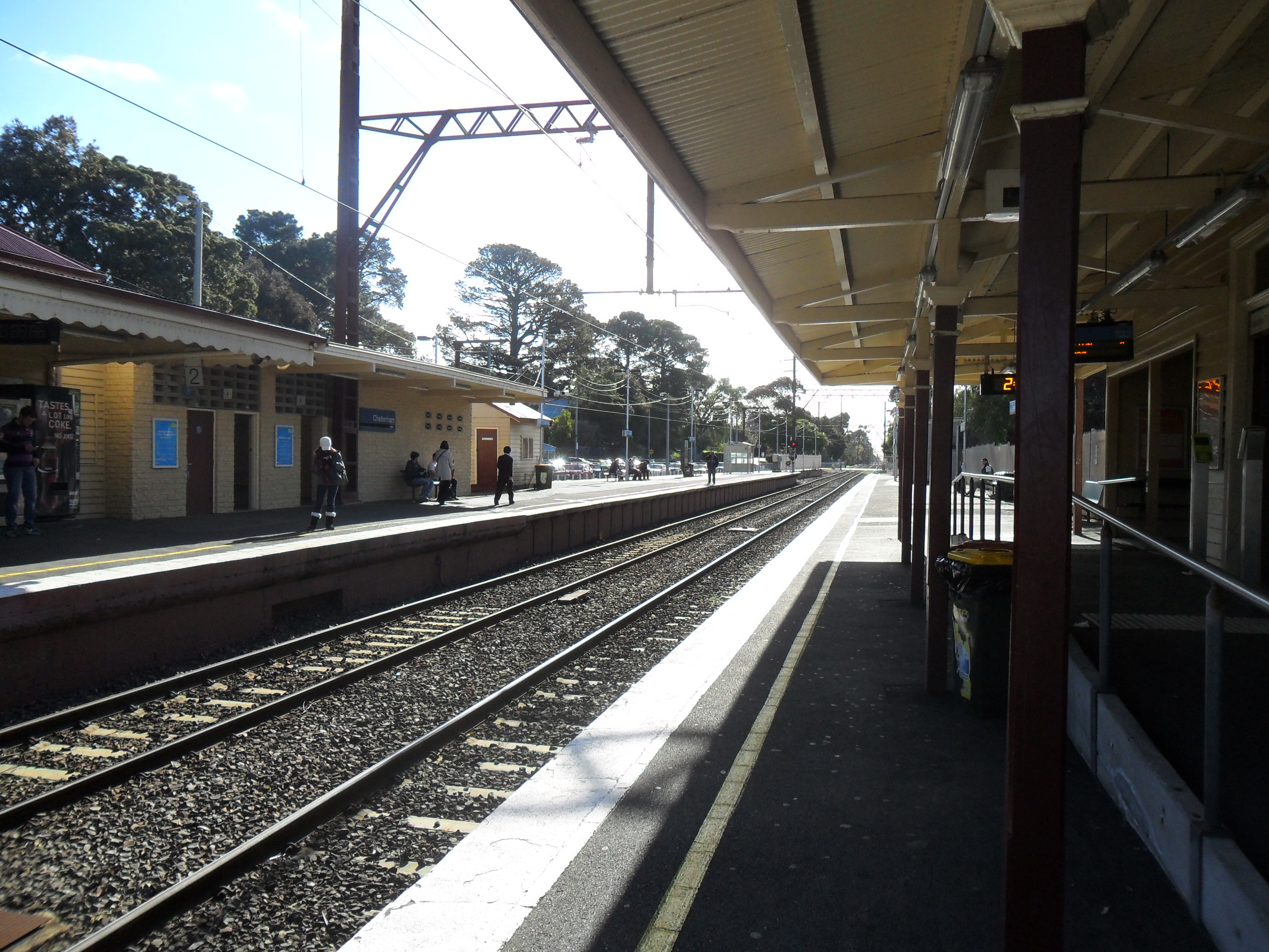 Cheltenham station looking towards Melbourne